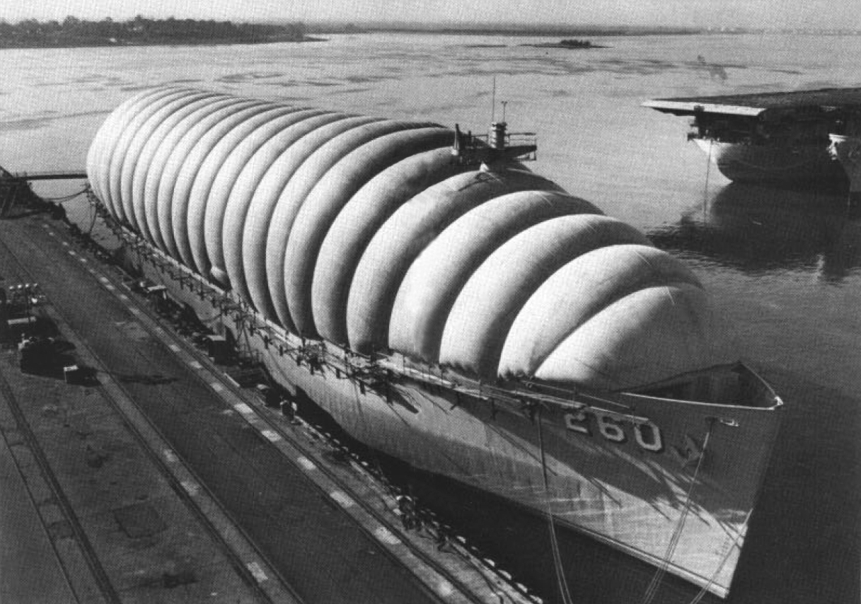 The mothballed U.S. Navy cargo ship USS Betelgeuse (AK-260) at the Philadelphia Naval Shipyard, Pennsylvania (USA), using a newly developed preservation method, circa 1971. The ship’s deck, topside equipment and superstructure were completely covered from bow to stem by a single, customengineered, air-supported, plastic structure within which dehumidified air was circulated. The advantage of this method was that significant time was saved in reactivating a ship to full operating status. The new process required minimum dismantling of a ship’s topside equipment for stowage below deck. Winches, controllers, directors and other topside gear remained in place.